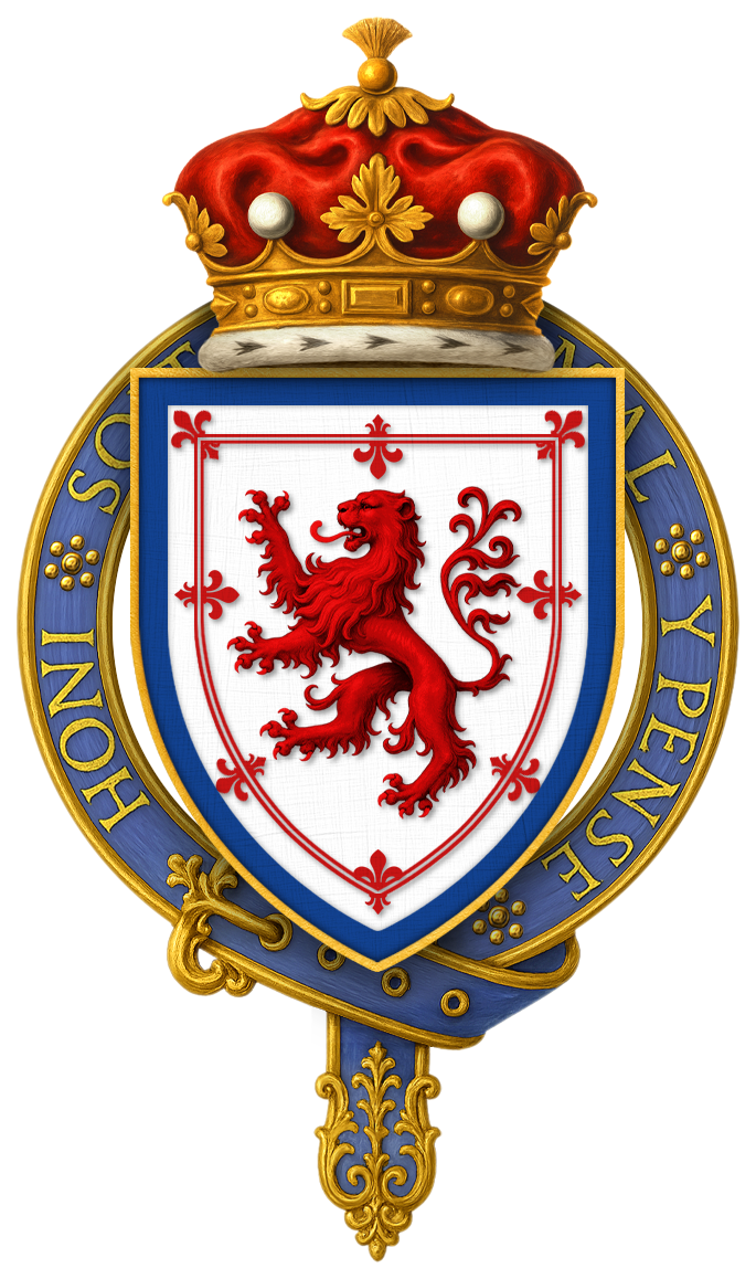 Coat of Arms of Lawrence Dundas, 2nd Marquess of Zetland, KG, GCSI, GCIE, PC, JP, DL